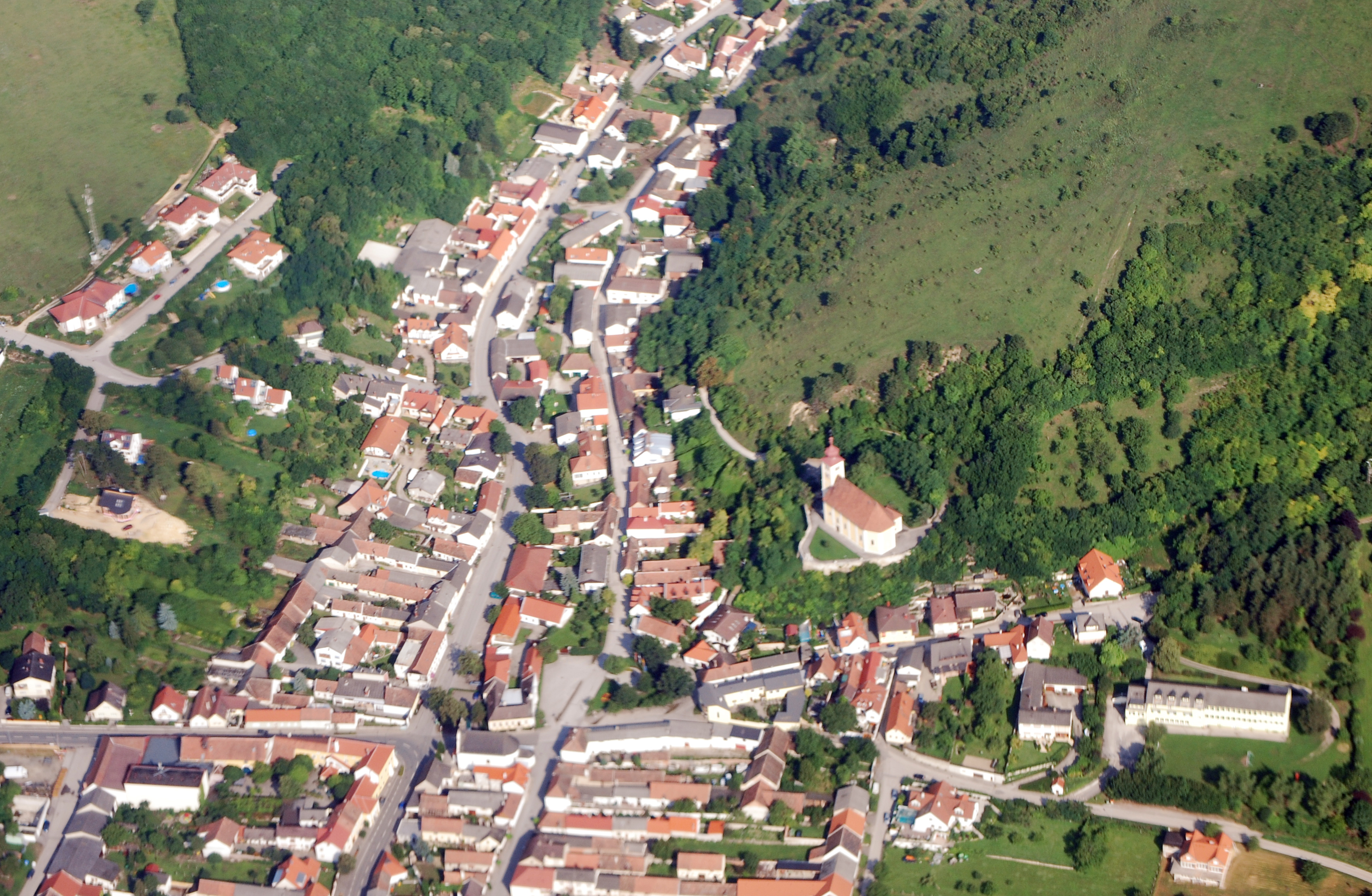 Centre of Donnerskirchen from SE